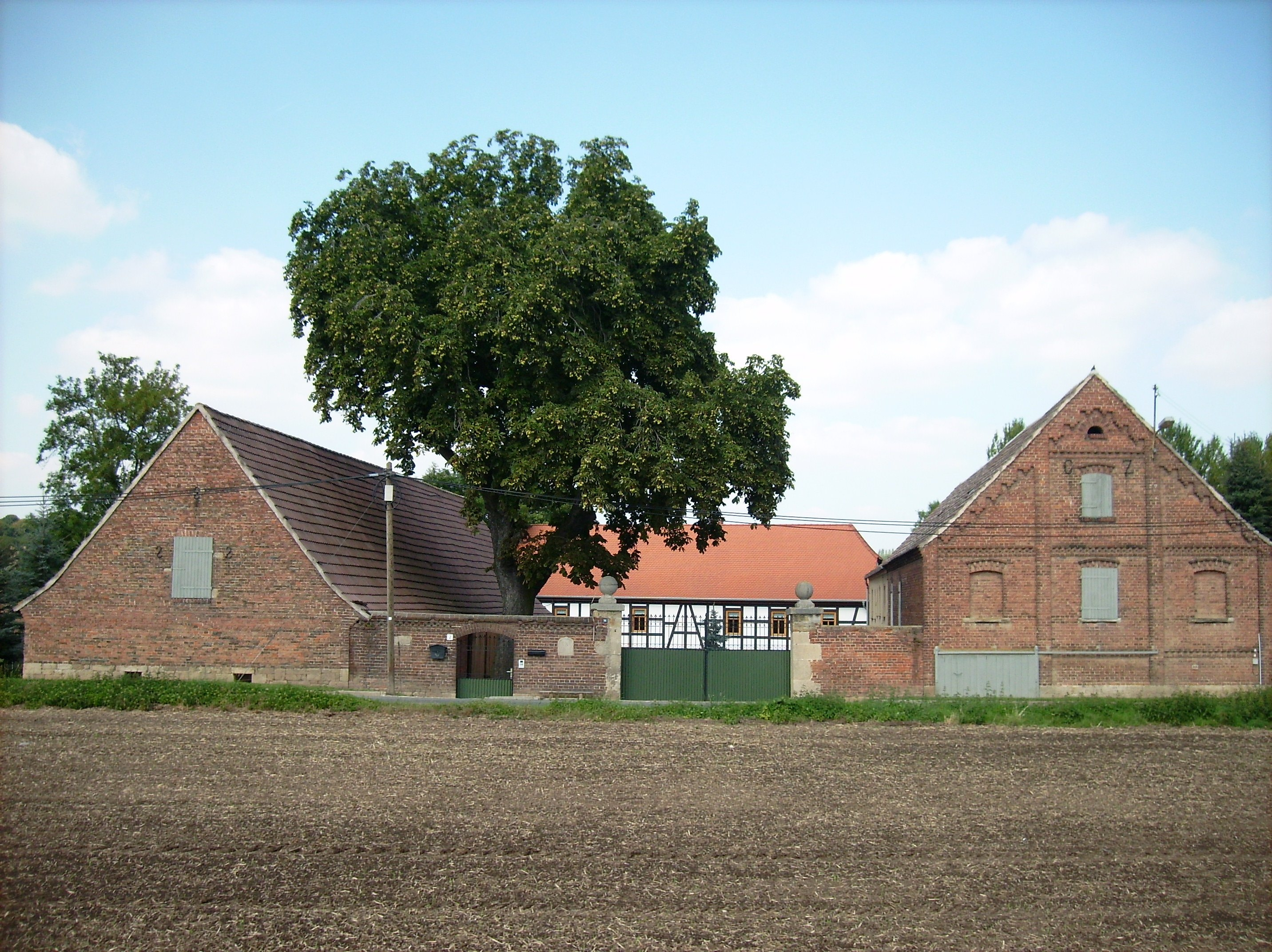 Spitzmühle, a former watermill between Boblas and Neidschütz (Naumburg/Saale, district of Burgenlandkreis, Saxony-Anhalt)